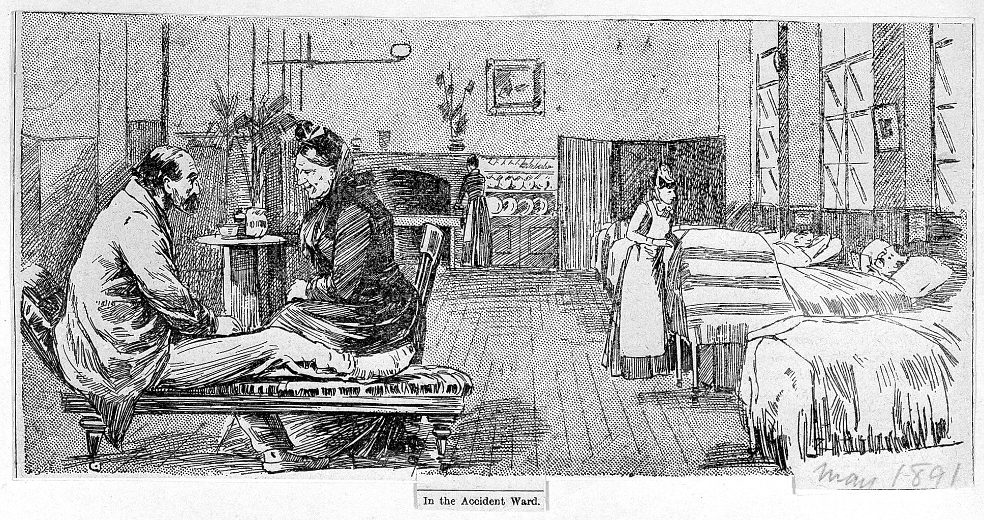 Royal Free Hospital, Grey's Inn Road. Accident ward. Wellcome Images Keywords: Institutions